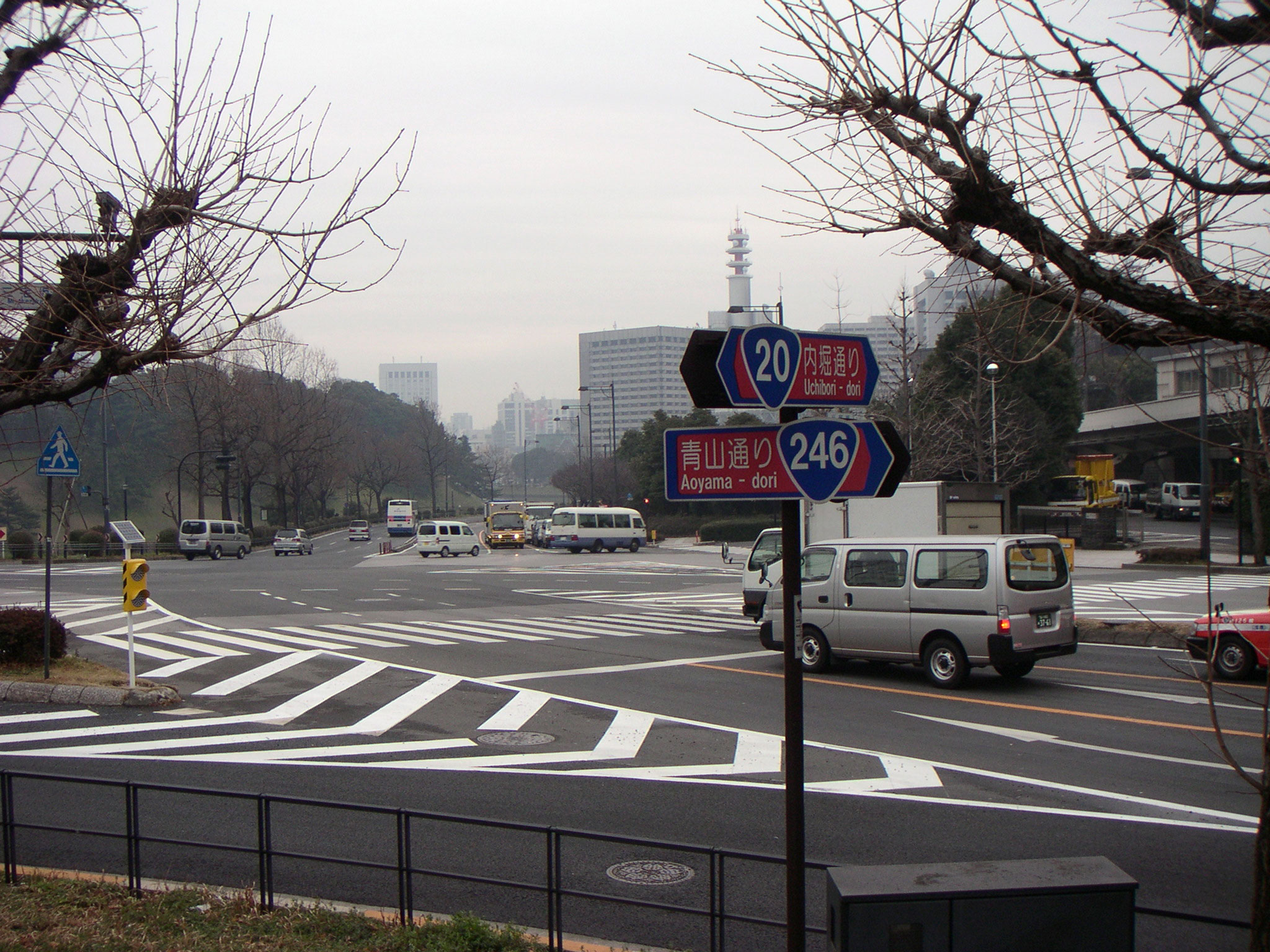 Miyakezaka crossing, Route 20 and Route 246, Tokyo, Japan 三宅坂交差点、国道20号、国道246号（起点）